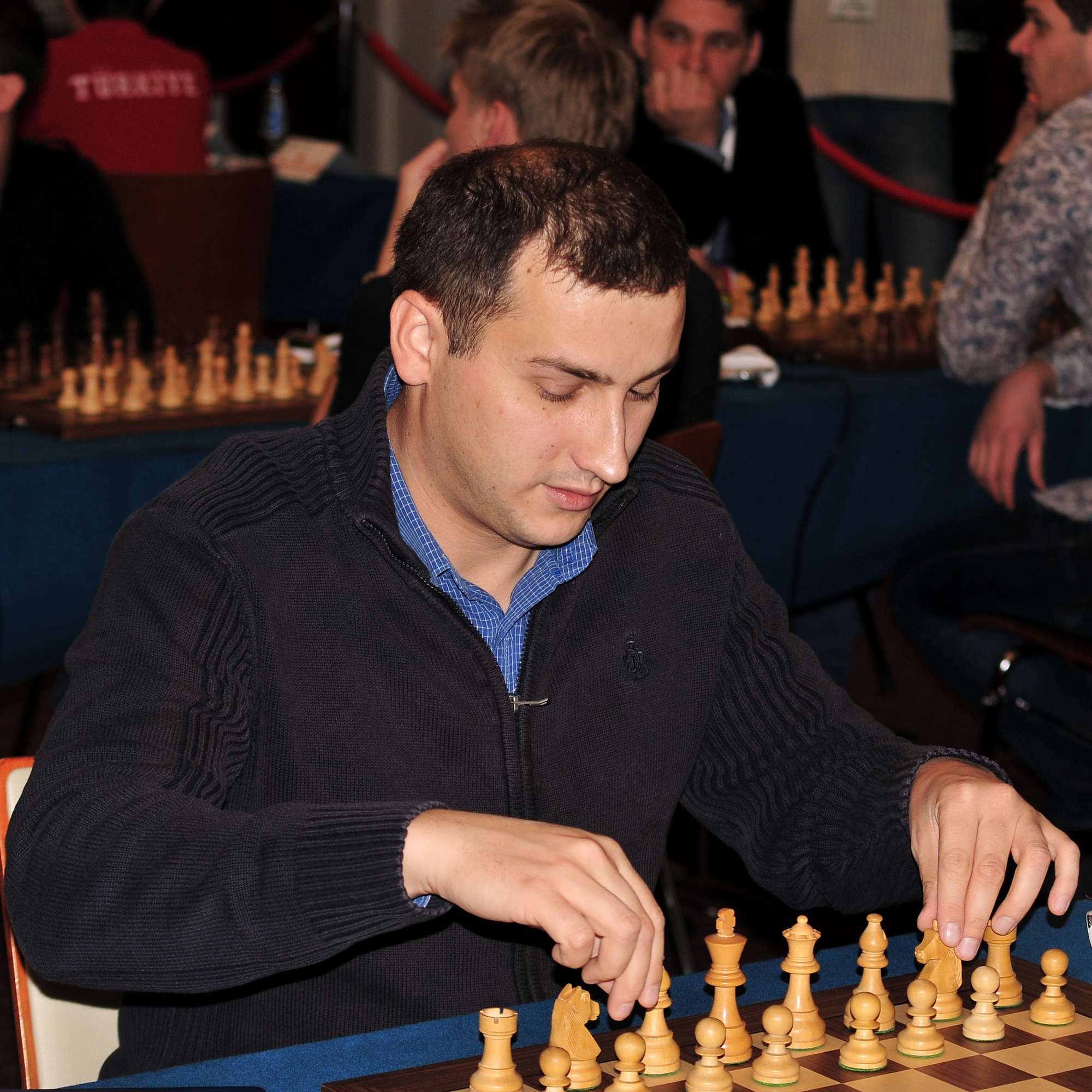 GM Hrvoje Stević, European Chess Team Championship Warsaw 2013